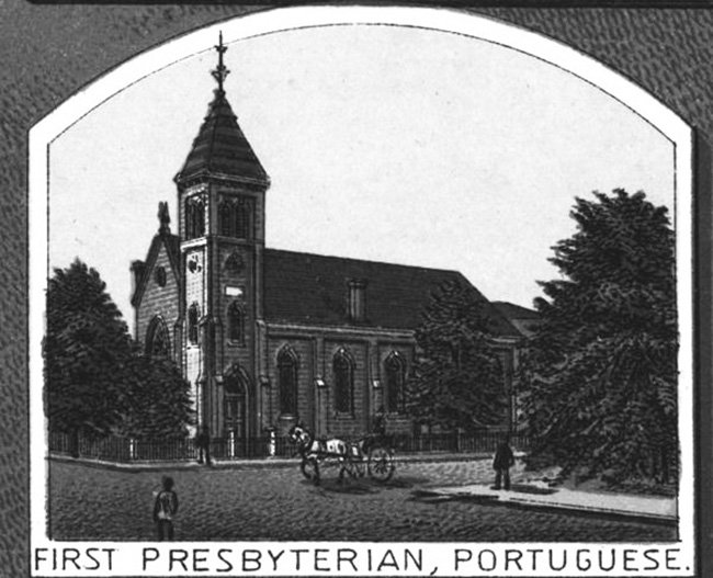 First Presbyterian Portuguese Church Springfield Illinois, Started by Robert and Sarah Kalley. est 1870??